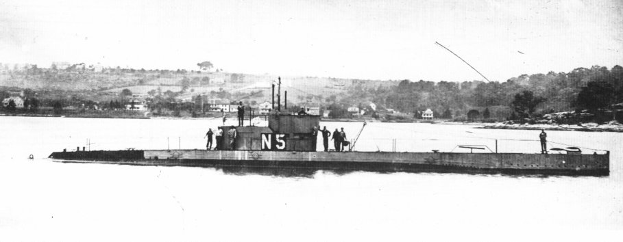 United States Navy submarine at the end of World War I